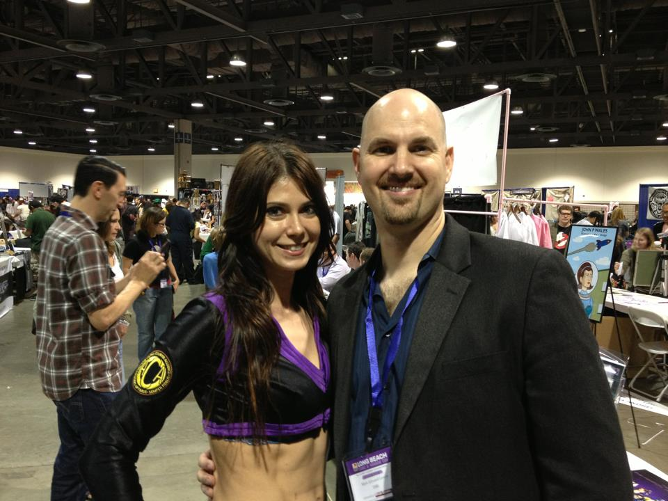 Mark and Alina at Long Beach Comic Con